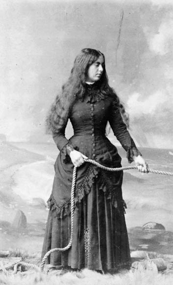 Miss Christy Ann Morrison, one of the two survivors of the sinking of steamer Asia in Georgian Bay (dated September 14, 1882).